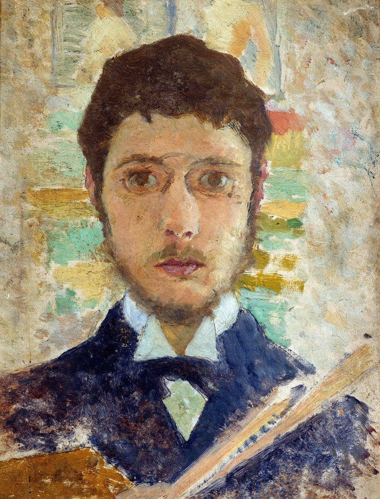 Selfportrait by Pierre Bonnard